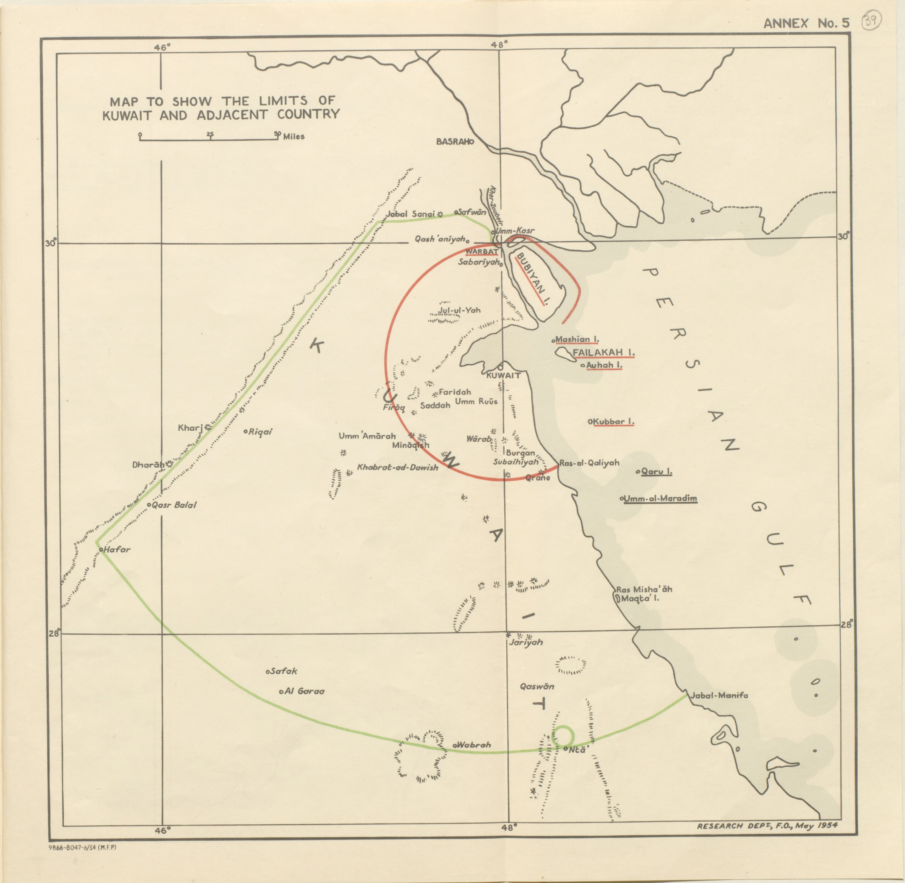 Map of the inner and outer zones of diminishing Kuwaiti Authority (Red Line and Green Line) defined by the 1913 Anglo-Ottoman Convention [1]